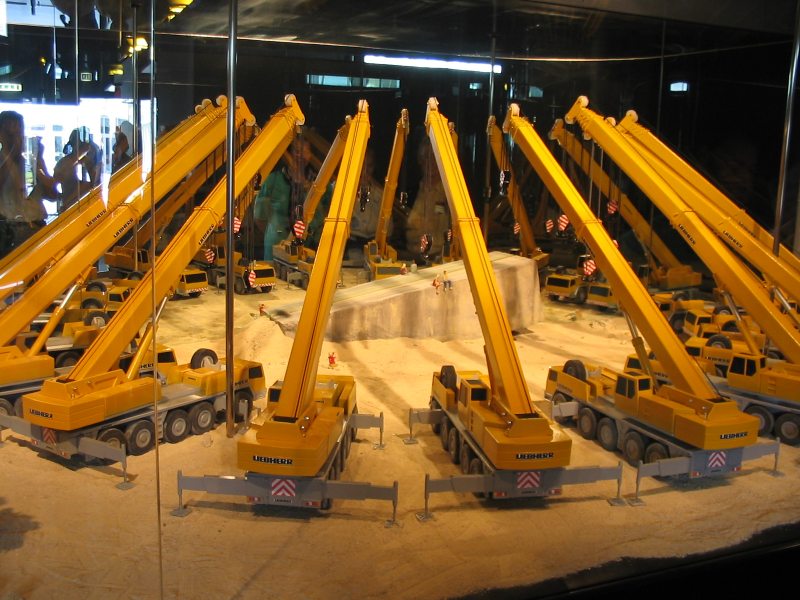 Interlaken, Mystery Park. Megastones-Pavillion, model of a monolith from Baalbek, Libanon surrounded by cranes to illustrate its huge weight.